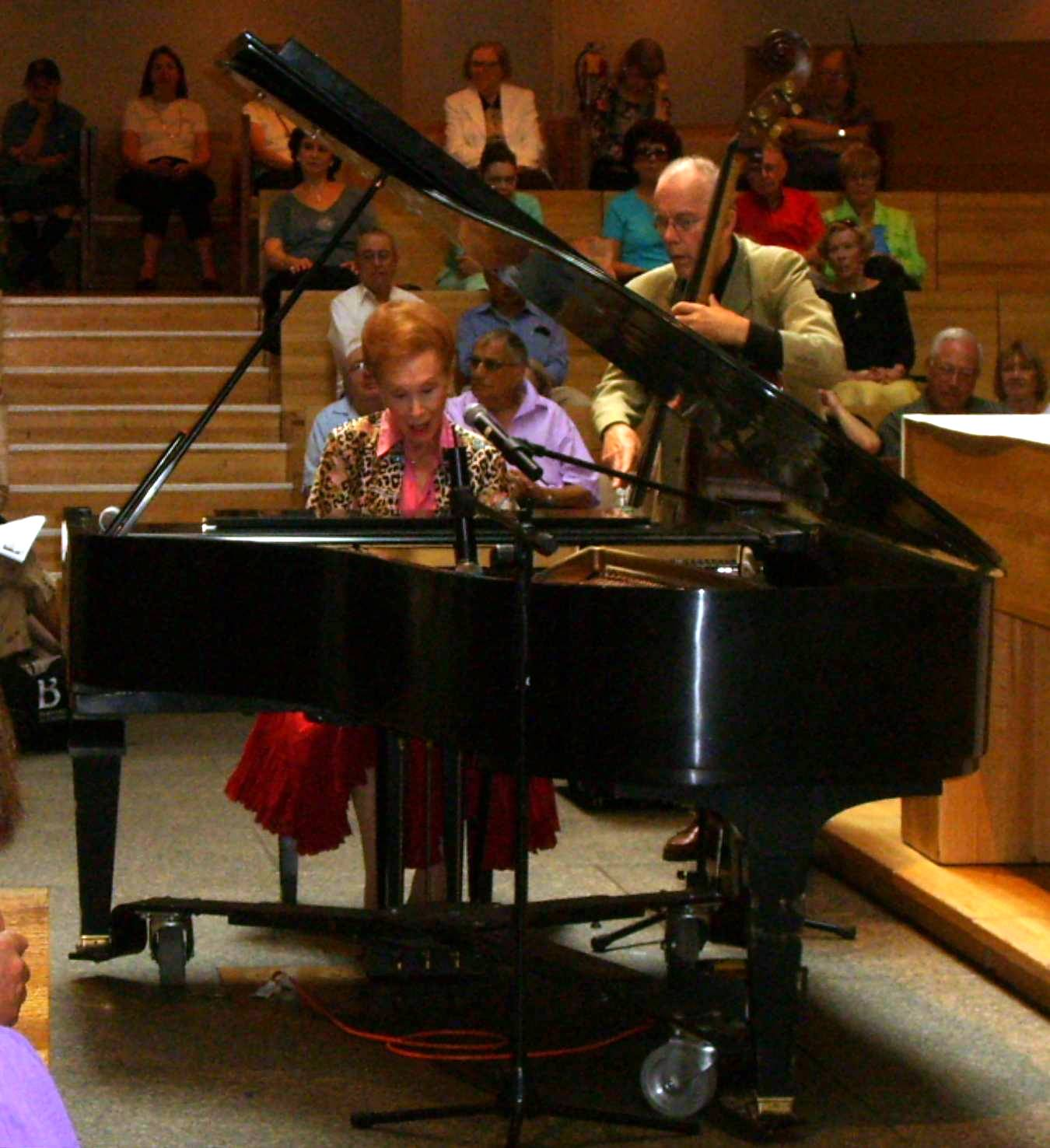 Barbara Carroll midday Jazz at ST. Peters Sept. 5 2007